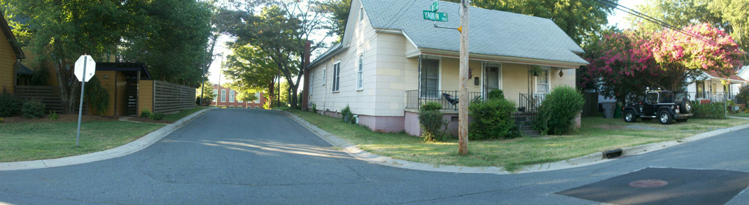 North Charlotte's Neighborhood in Highland Mill Village Houses